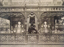 Hancock’s stand at the Vienna Exhibition 1873